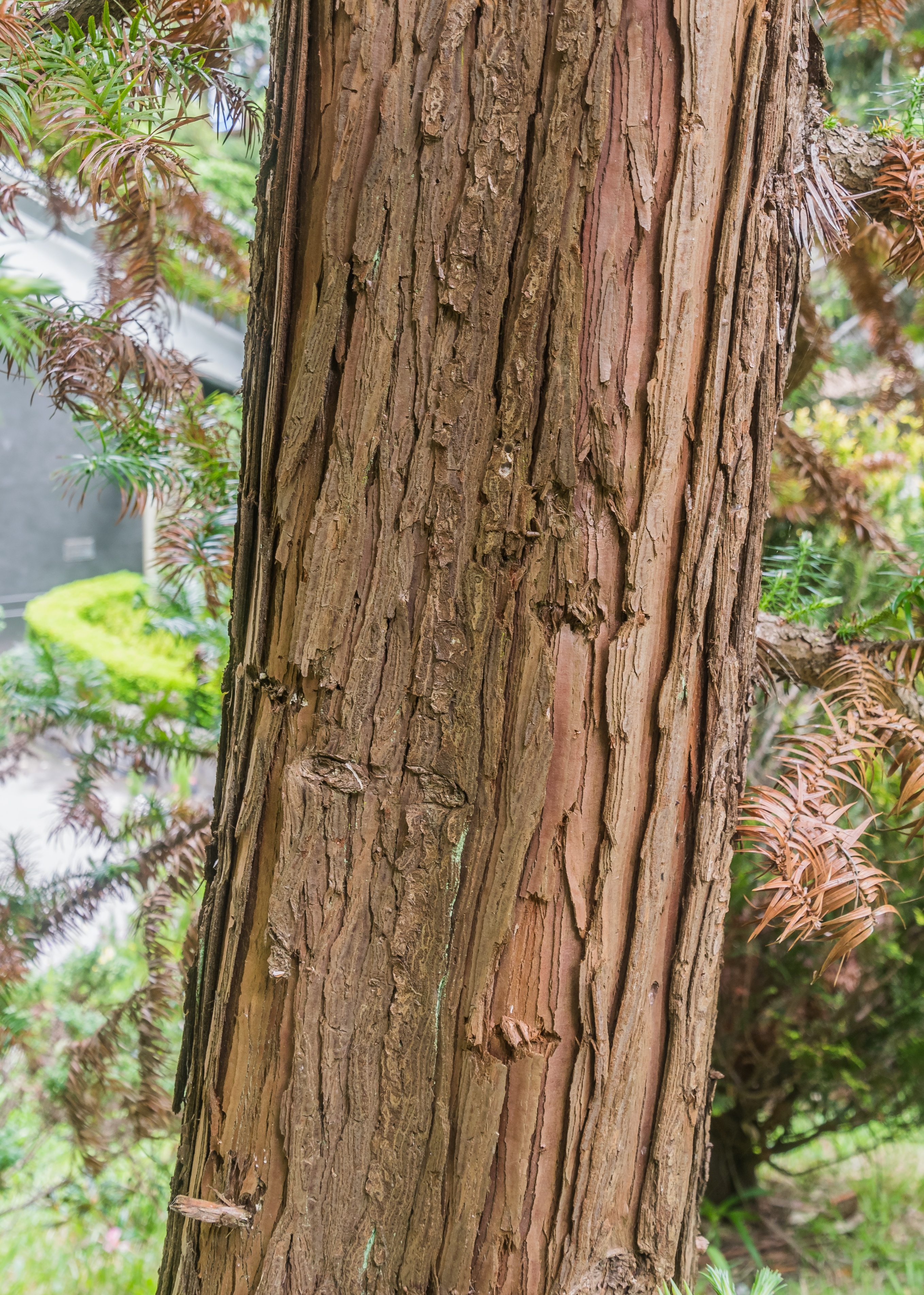 Bark of Cunninghamia lanceolata in Wellington Botanical Garden, Wellington Region, North Island of New Zealand